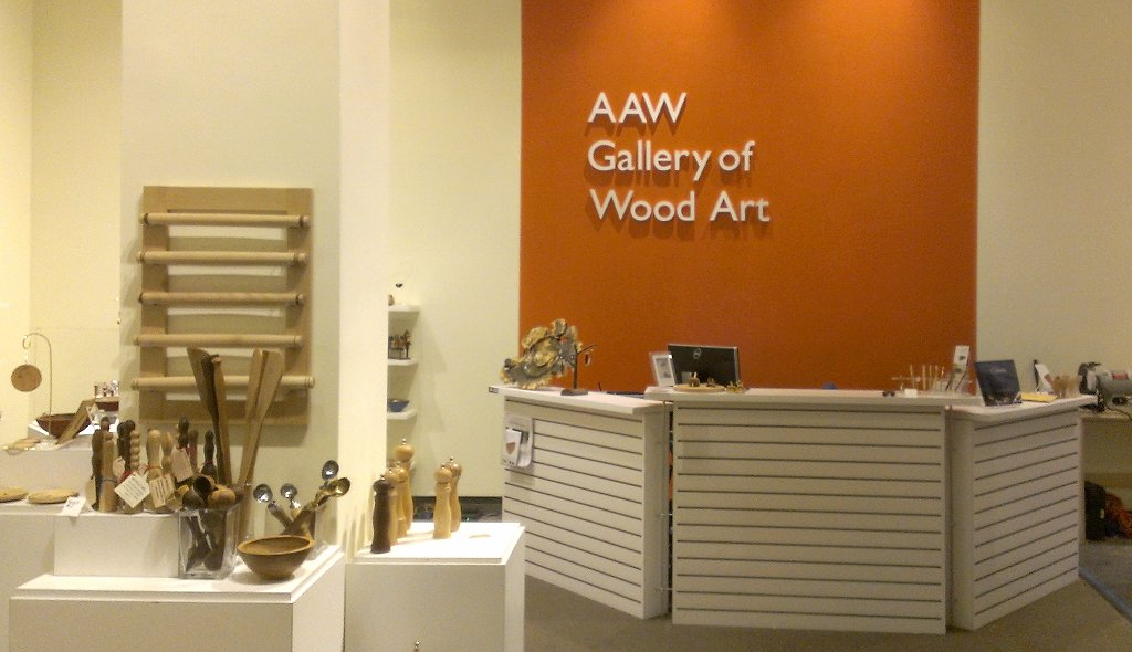 American Association of Woodturners Gallery of Wood Art, Landmark Center, St Paul, Minnesota, USA